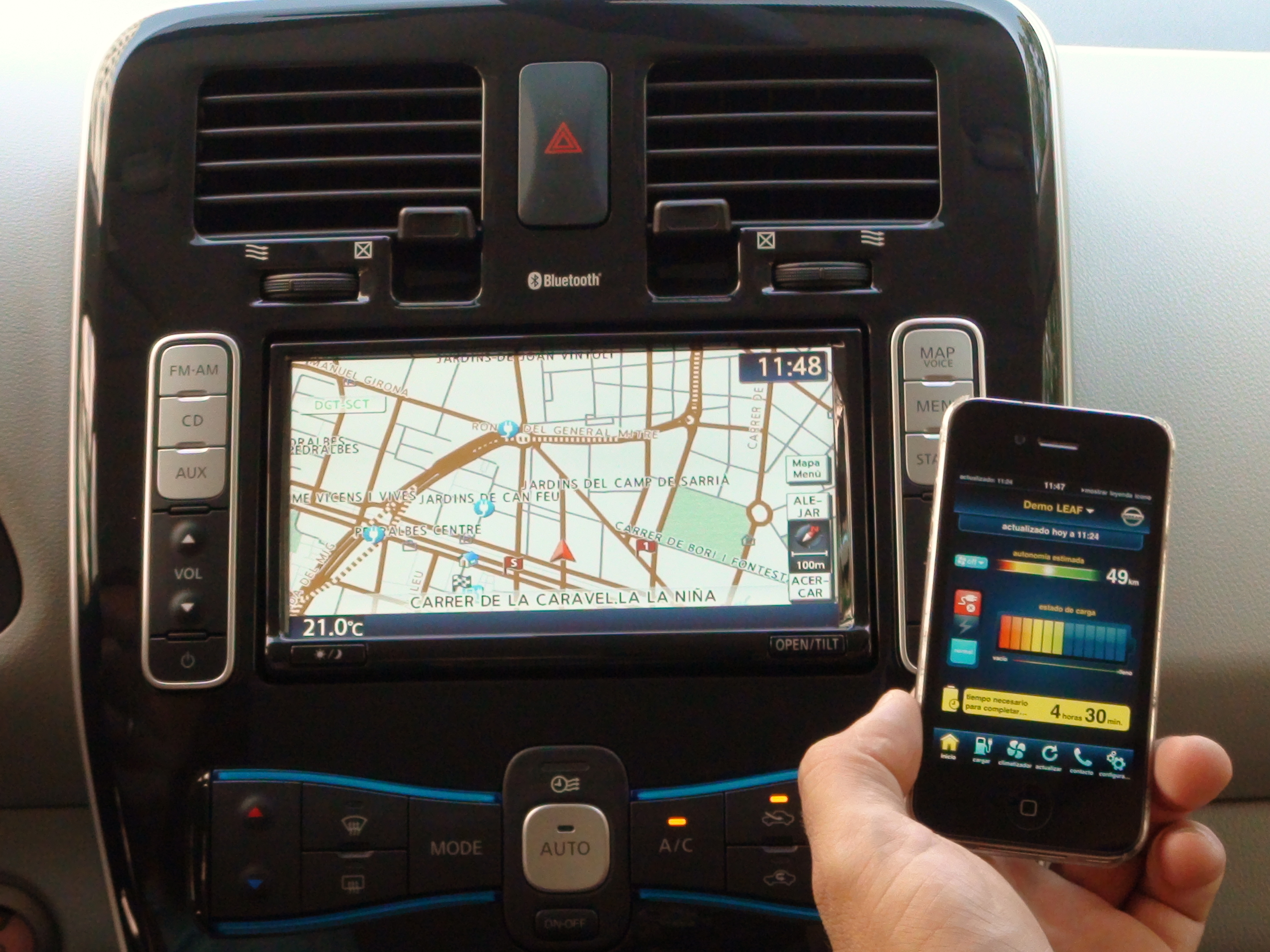 Nissan Leaf digital control panel and smartphone app